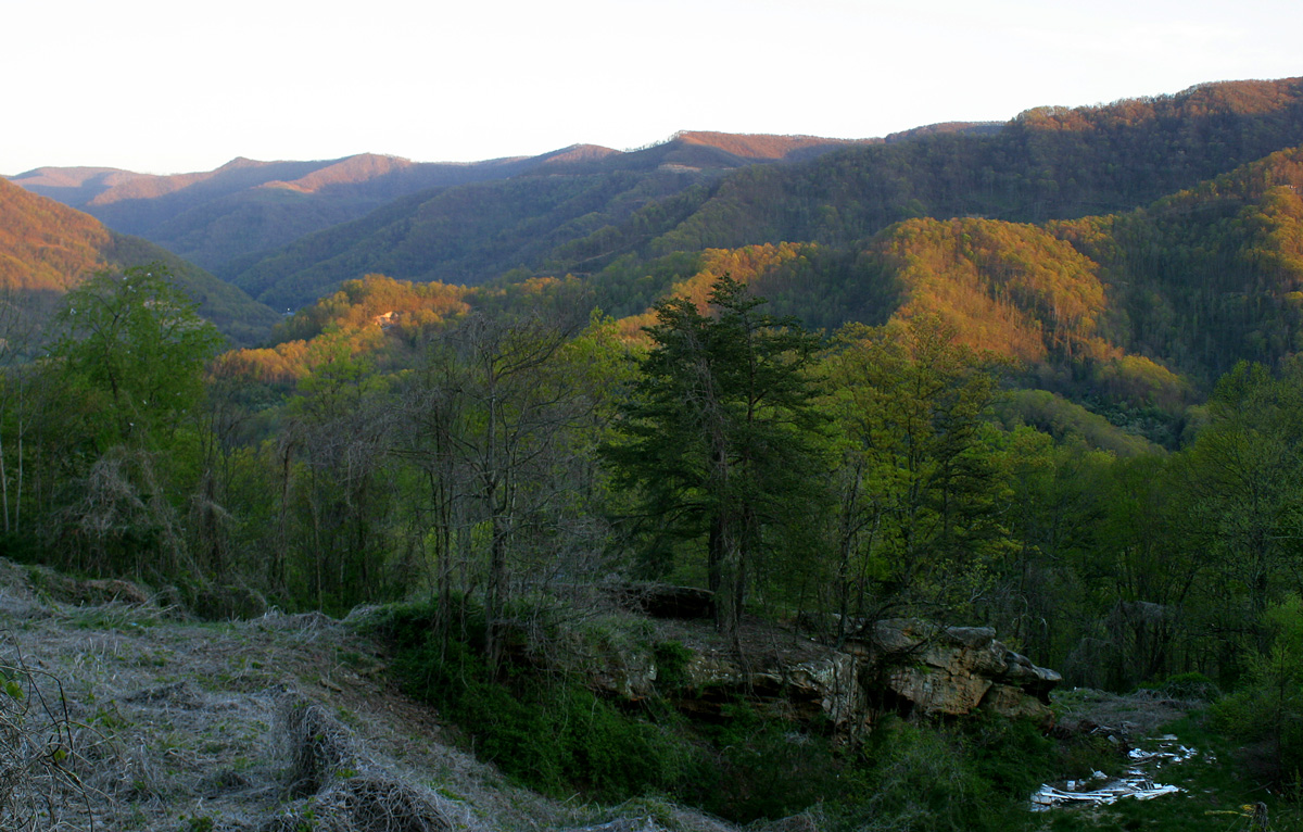 The Kentucky side of Black Mountain offers a rare view of the Appalachian coalfields with no mountaintop removal mining in sight. This area was protected by a successful Lands Unsuitable for Mining petition brought by citizens with Kentuckians For The Commonwealth in the late 90s. Photo by Matt Wasson, Appalachian Voices. April 18th, 2010.